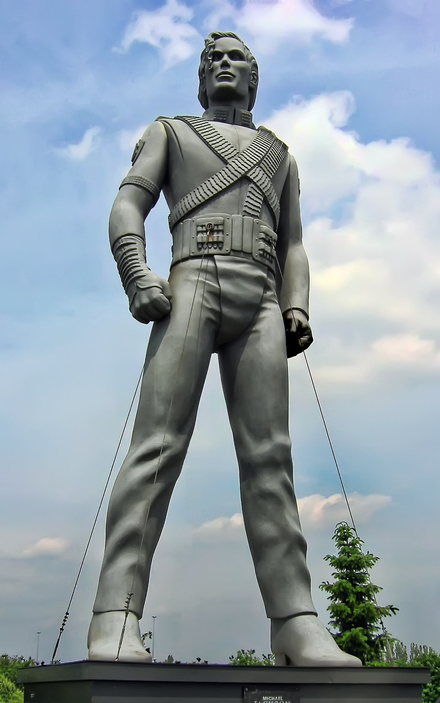 Statue of Michael Jackson based on Diana Walczak's original HIStory statue in Best - near Eindhoven, the Netherlands